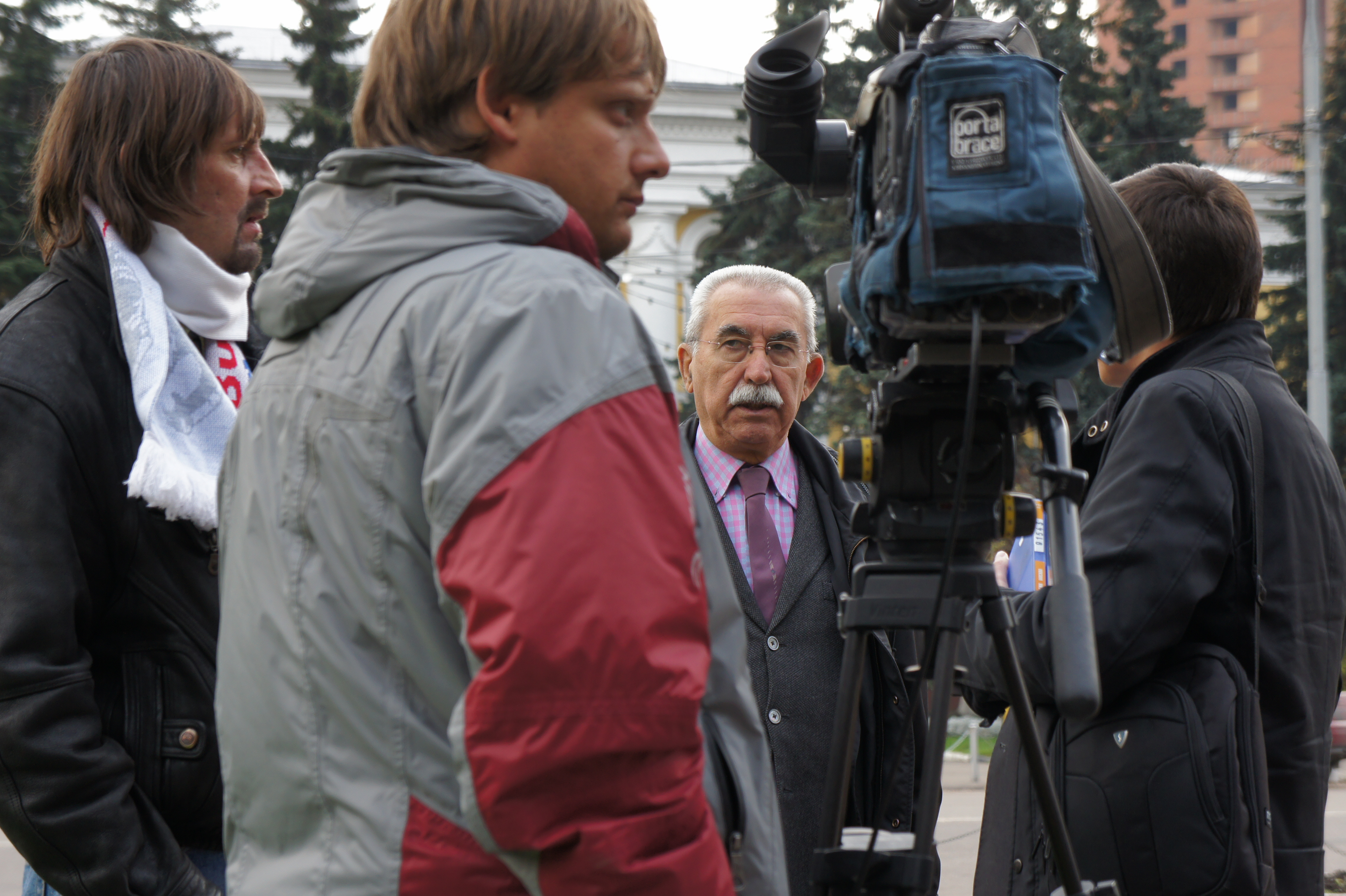 Giulietto Chiesa, Italian journalist and politician, interview by Russian television in Khimki during the 2012 mayoral elections.